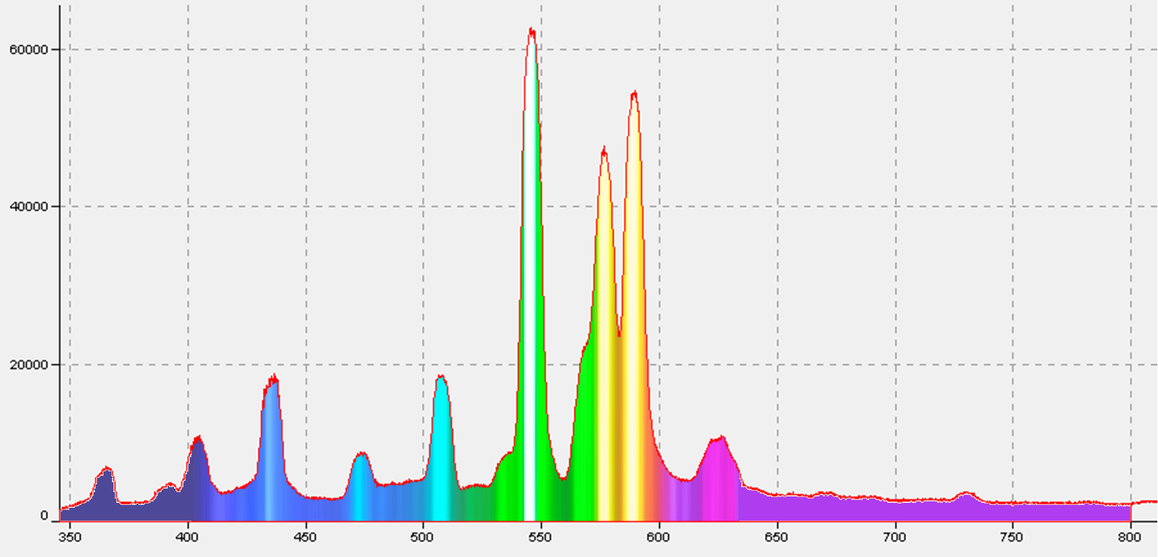 Visible spectrum of a metal halide lamp